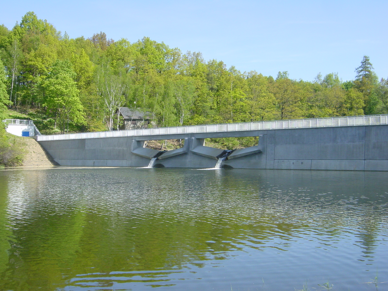 Thoßfell dam, pre dam of Pöhl dam, Germany